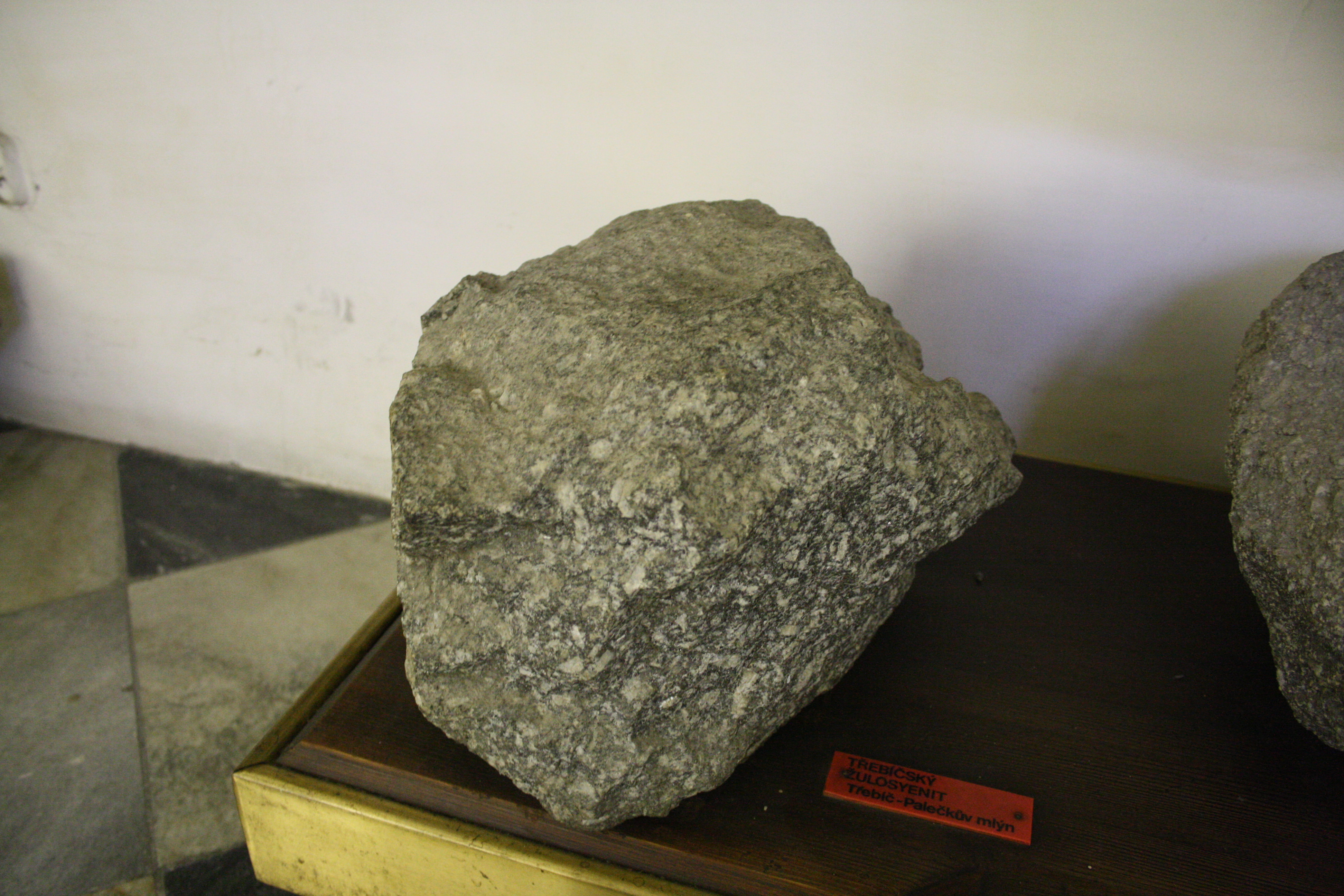 Granitesyenite of Třebíč.